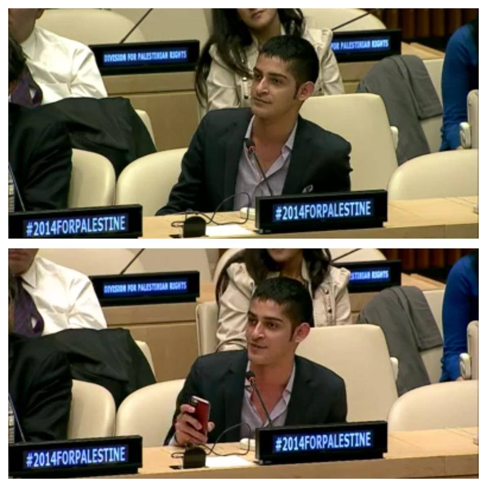 Chaker at the United Nations in New York..